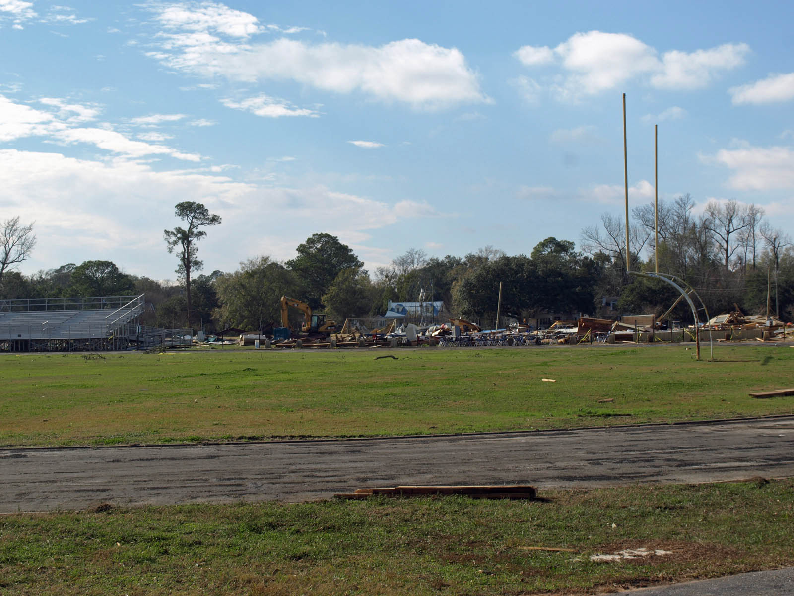 Portable classrooms and athletic facilities at Murphy High School in Mobile, Alabama, were destroyed the Christmas Day tornado.